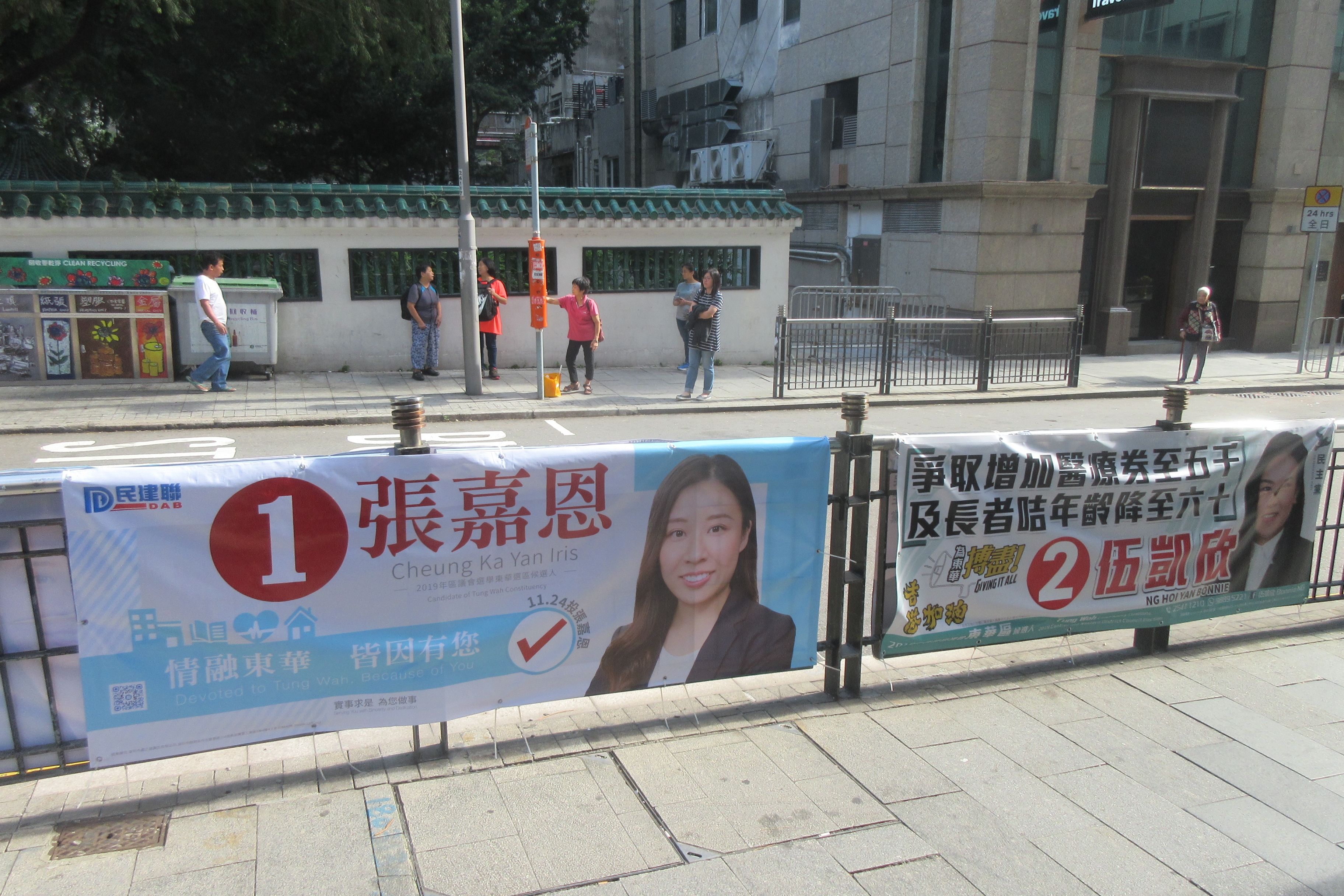 HK 上環 Sheung Wan 荷李活道 Hollywood Road in November 2019 Cheung Ka Yan 張嘉恩 & Ng Hoi Yan Bonnie 伍凱欣